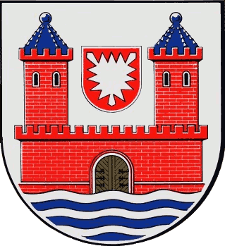 Coat of arms of Fehmarn and the former town Burg auf Fehmarn Blasonierung: In Silber über abwechselnd silbernen und blauen Wellen eine freistehende rote Burg aus Ziegelsteinen mit Zinnenmauer, geschlossenem goldenen Tor und zwei blau bedachten, mit je zwei rundbogigen Fenstern versehenen Zinnentürmen, zwischen denen der rote holsteinische Schild mit dem silbernen Nesselblatt schwebt.